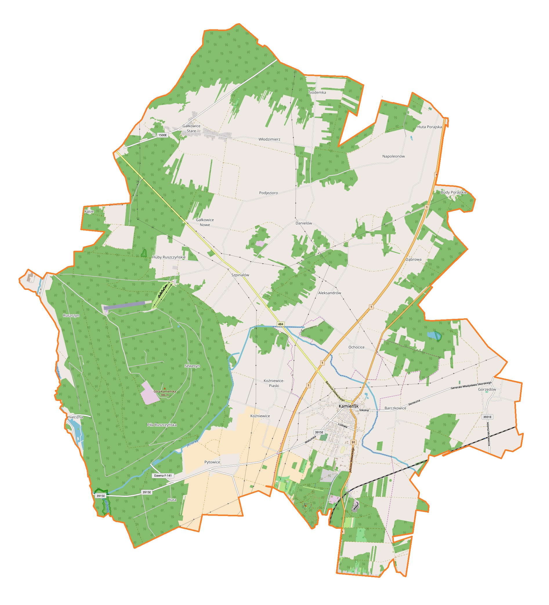 Location map